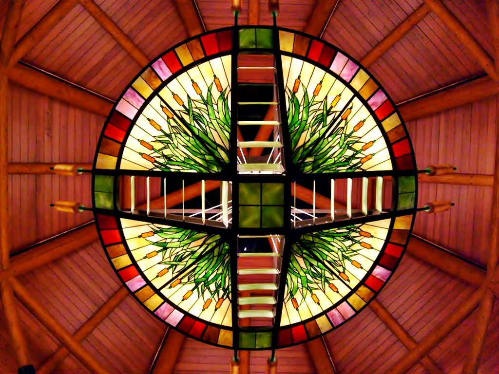 Entry way of Four Winds Casino in New Buffalo, Michigan.